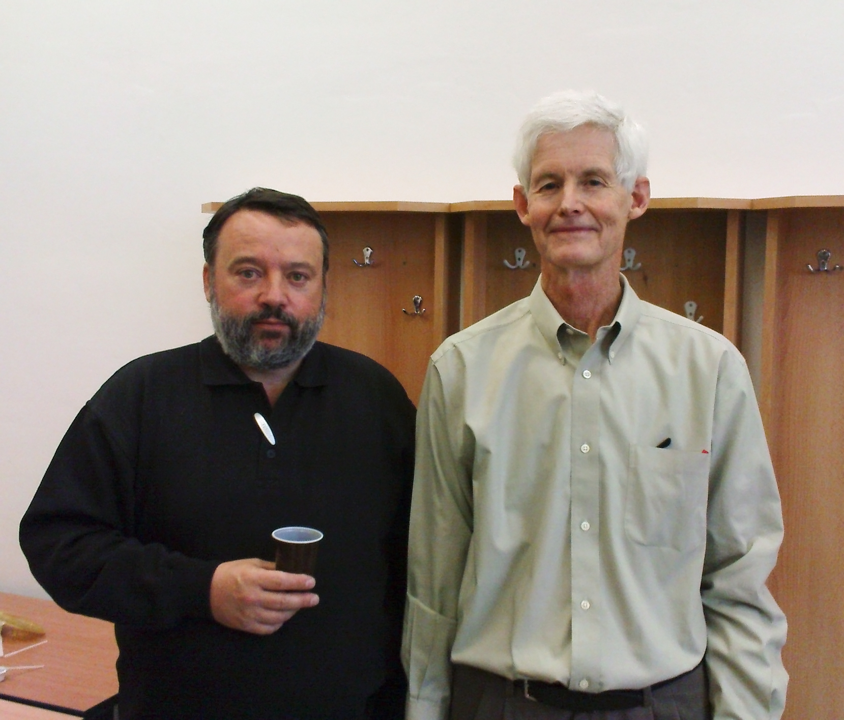 Professors Cook and Krajíček at the Fall school of LOGIC & COMPLEXITY in Prague, September 24, 2008